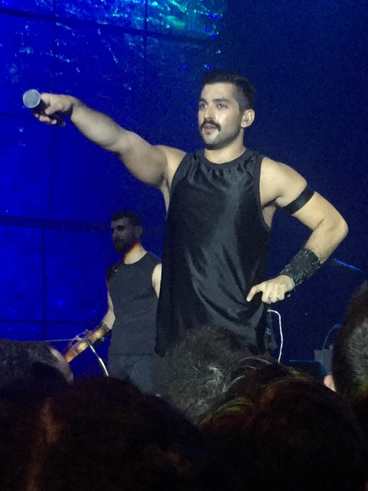 Hamed Sinno fronting Mashrou' Leila in the 2017 Ehdeniyyat festivals, Ehden, Lebanon